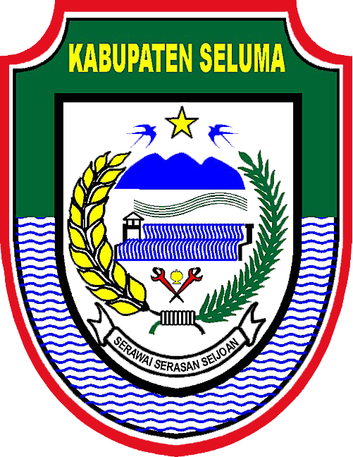 Seluma